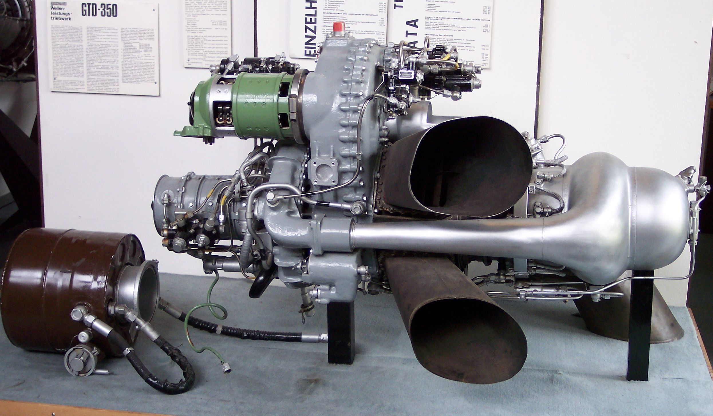 Klimow / Isotow GTD-350 (Turboshaft engine)